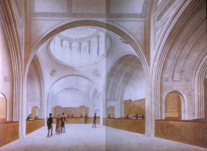 A 19th century print showing the dividend office at the Bank of England in London as designed by Sir John Soane.